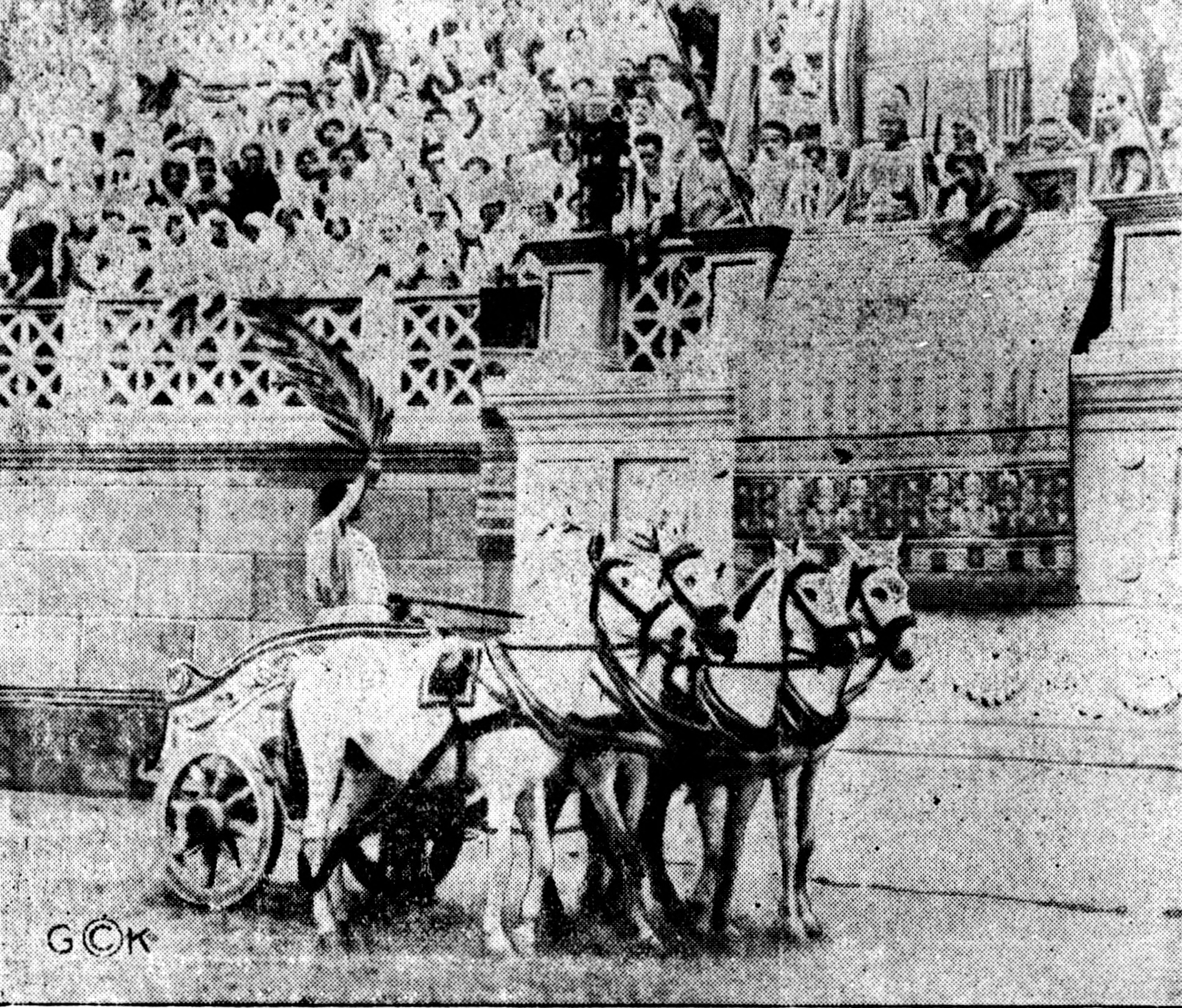 Quo Vadis was a 1912 Italian silent film. This is a publicity shot from a newspaper.